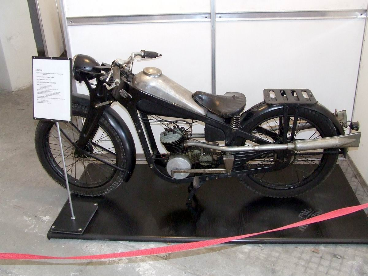 Polish MOJ 130 motorcycle, 1937-1939